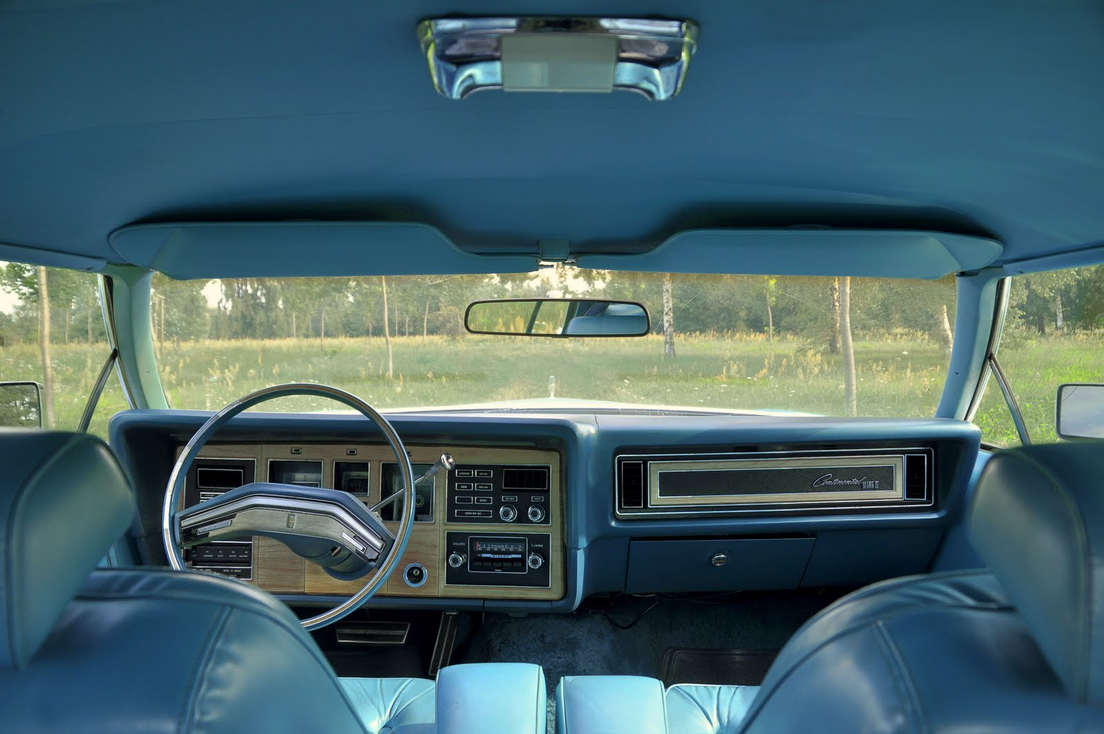 1976 Lincoln Continental Mark IV Givenchy designer series (interior)